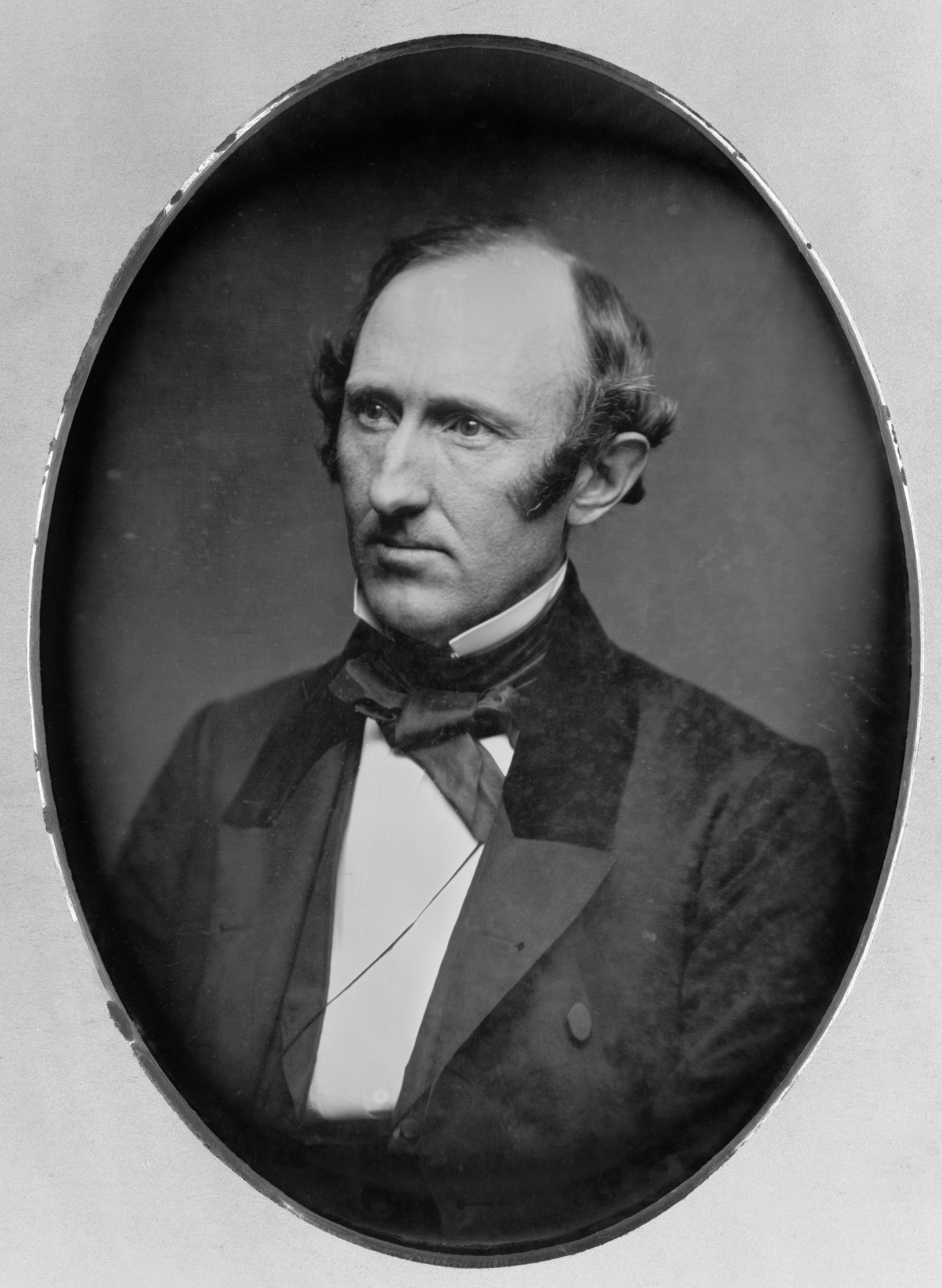 Wendell Phillips, head-and-shoulders portrait, facing left .